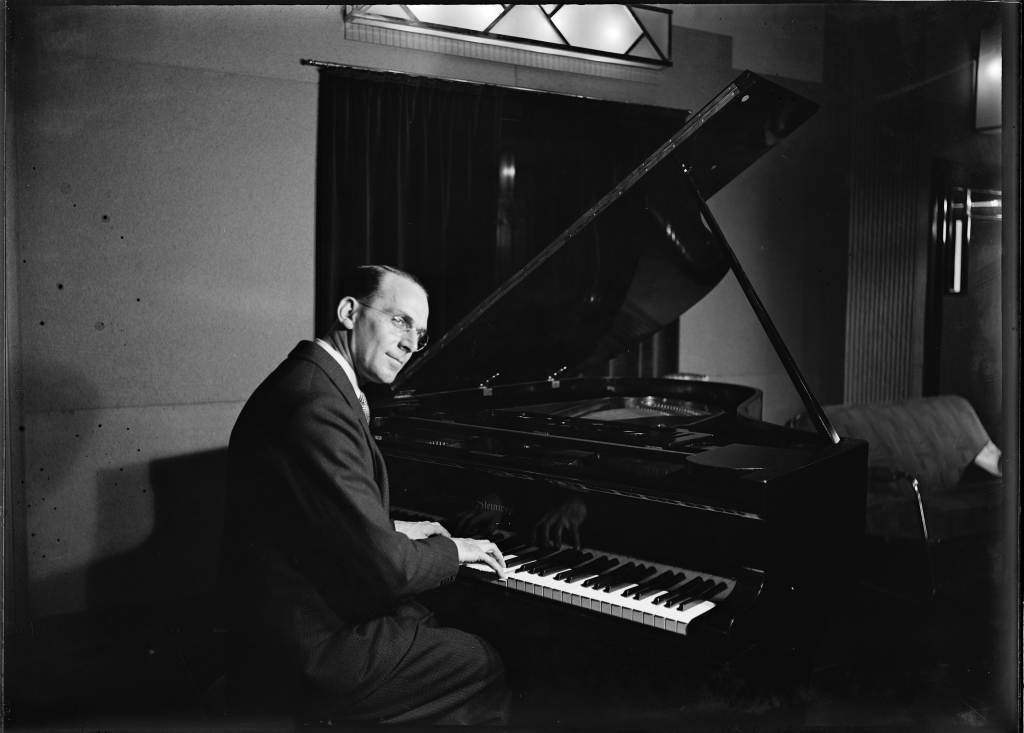 A photo from the Tom Lennon Photographic Collection from the Powerhouse Museum.